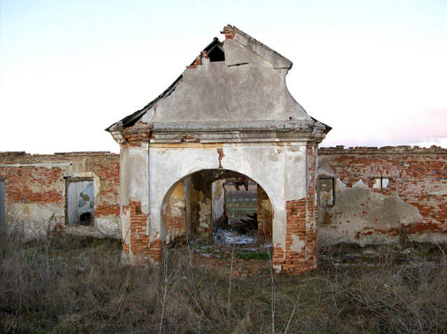 Târguşor, Bihor County